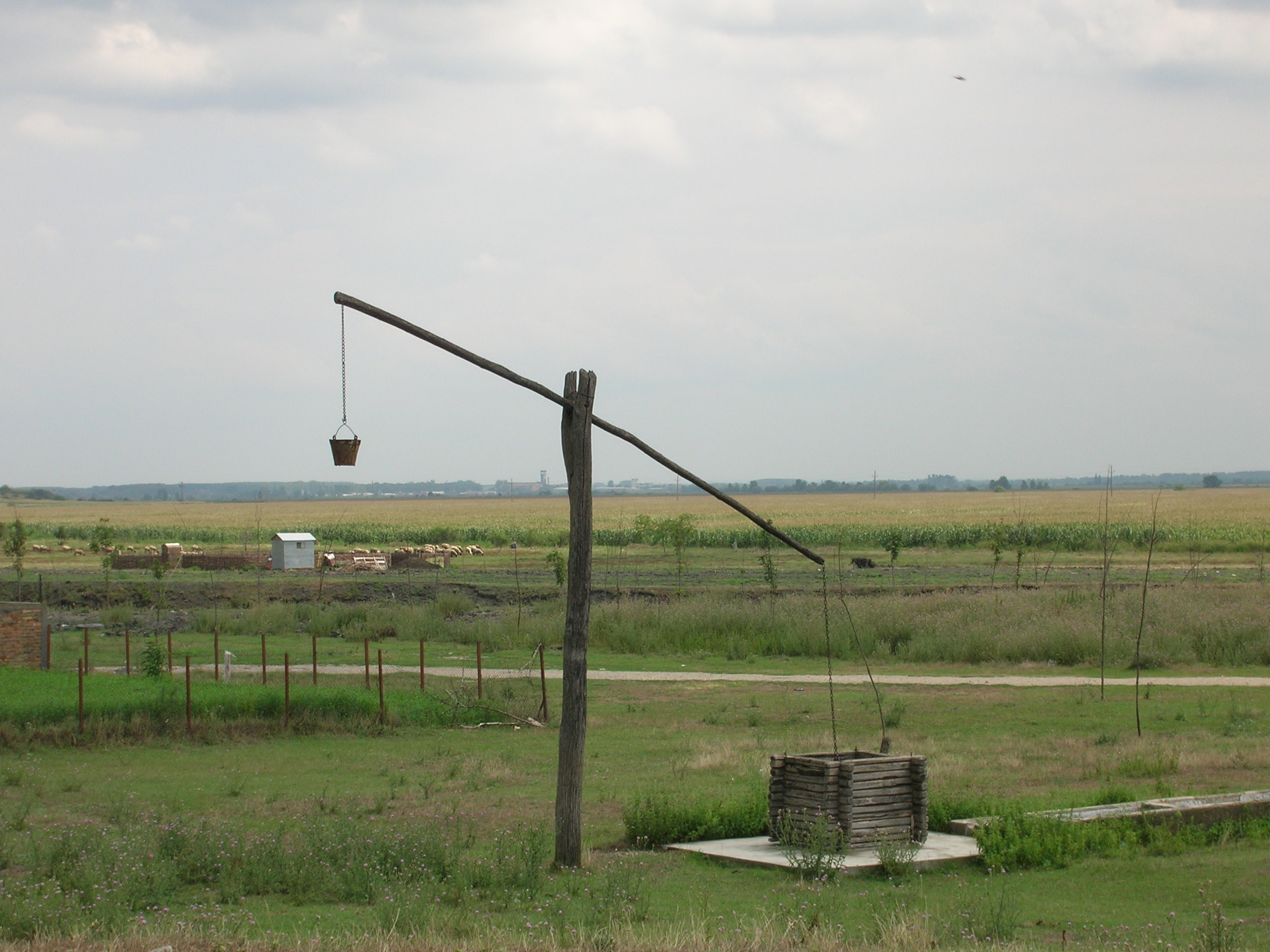 Shadoof in Skorenovac, Vojvodina.